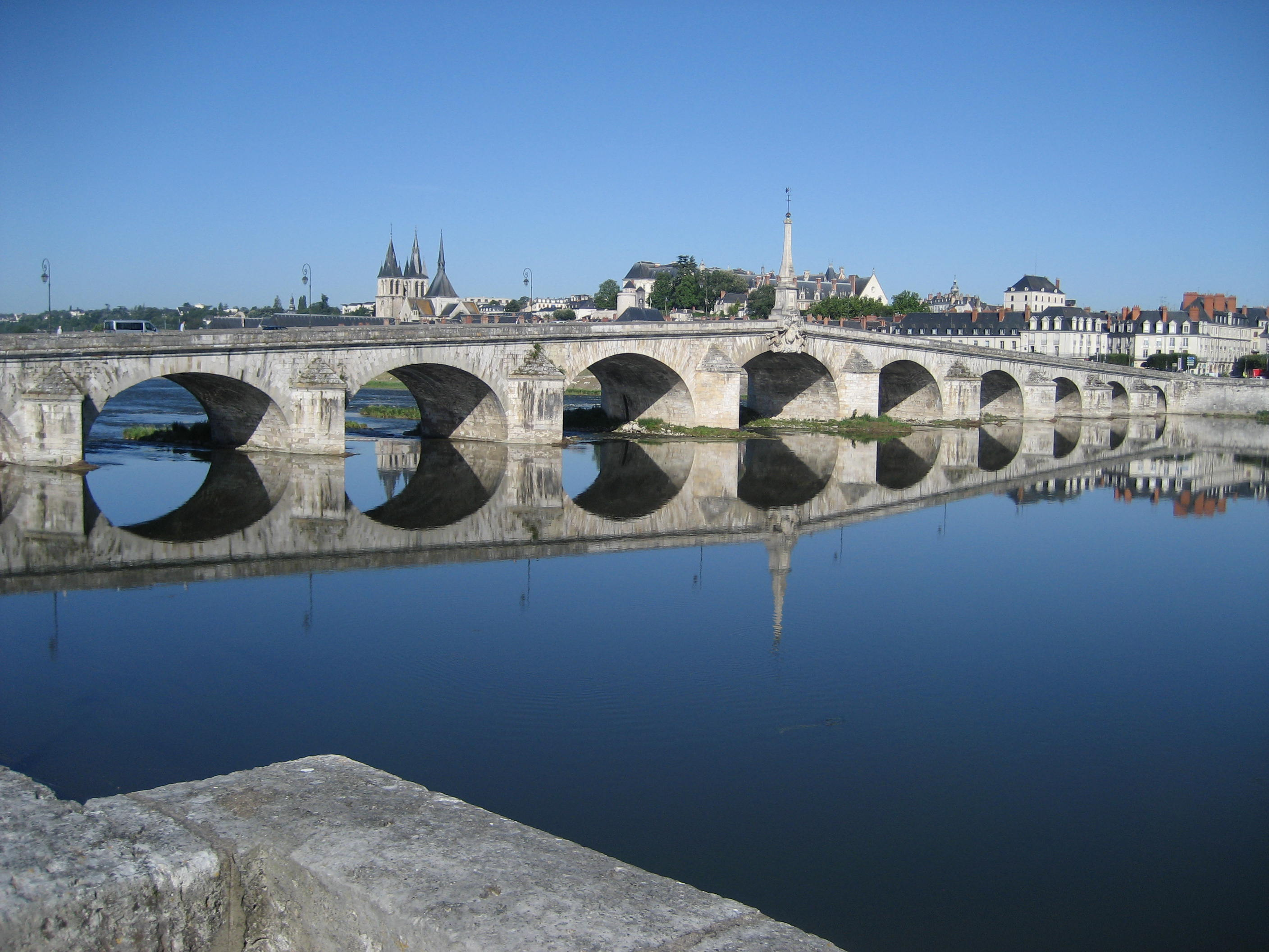 Pont Jacques Gabriel, Blois, Loire